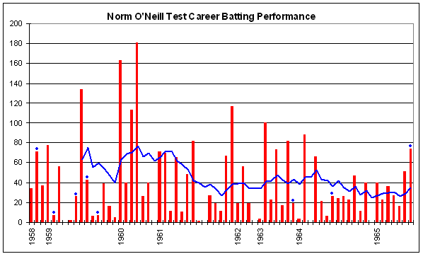 Test batting chart of Norm O'Neill. Red columns are the runs in the innings. Blue dots indicate not outs. Blue line is average in the last ten innings. Thanks to Raven4x4x for providing the template.